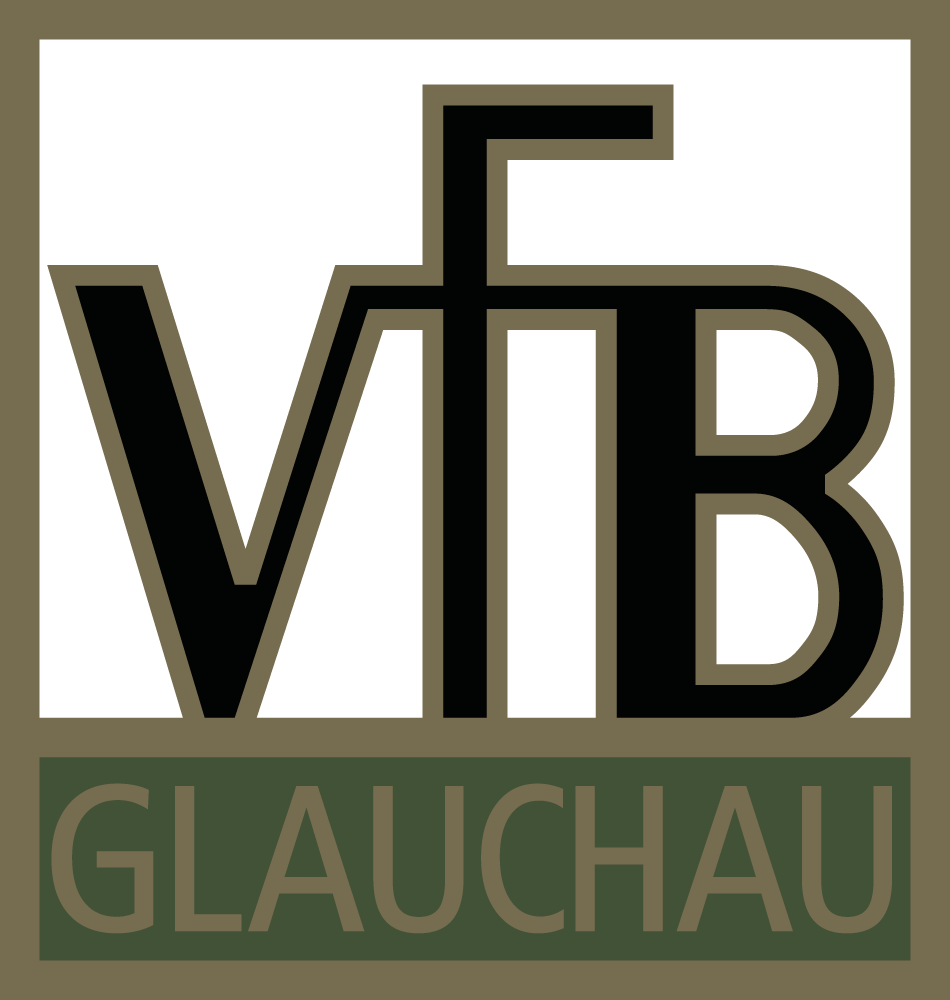 Logo of german football club VfB Glauchau (1915-1945)